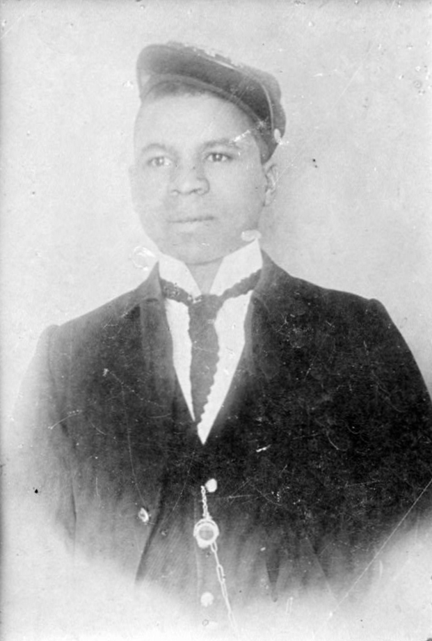 Dennis Bell, Medal of Honor recipient. This photograph was part of the material prepared by W.E.B. Du Bois for the Negro Exhibit of the American Section at the Paris Exposition Universelle in 1900 to show the economic and social progress of African Americans since emancipation.